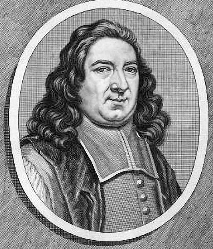 Jacobus Trigland the Younger (1652-1705) Dutch Reformed theologian and philologist